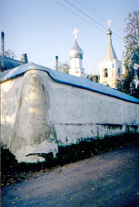 I am (rydel) the author of this photo, taken in 2000, and I release it under GFDL. This is an Orthodox church in Vorsha, saint Illa, built in 1880. Located near Dniapro.